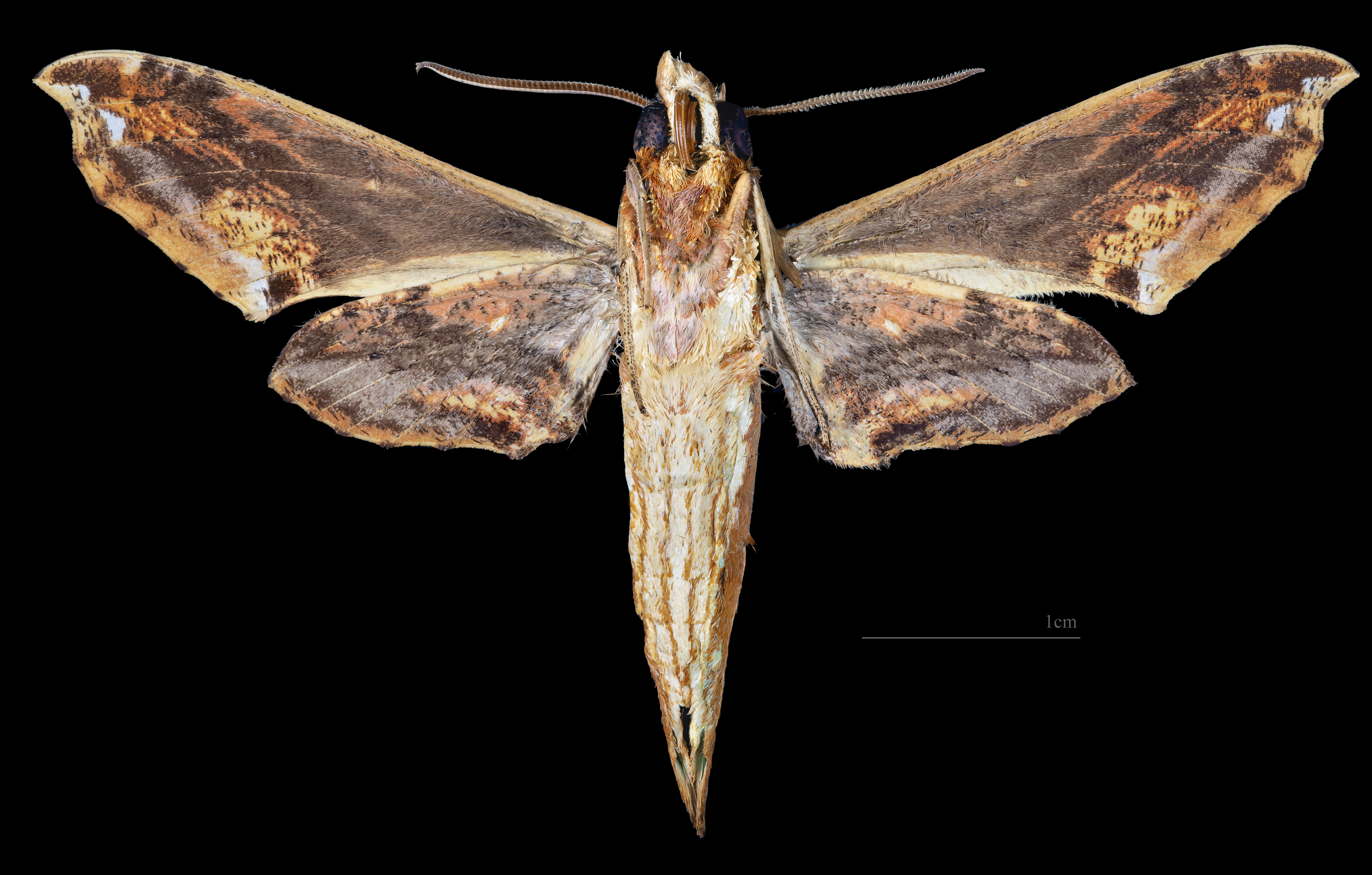 Eupanacra sinuata - △ Ventral side Collection of the Mathematician Laurent Schwartz